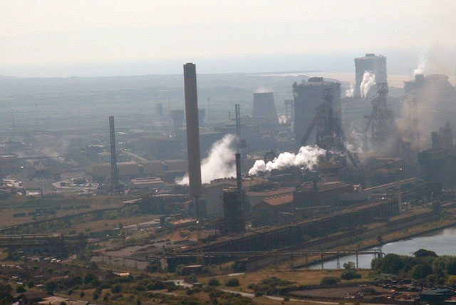 Port Talbot Steelworks. The Port Talbot Steelworks is one of the largest in the country and spans several square km. This photo is obviously taken from a distance since the interior of the works is private and subject to photographic restrictions. Update: by June 2008 most of the buildings in this image had been demolished. These include the blast furnaces, coke ovens and chimneys. Two larger blast furnaces and new coke ovens have been constructed in a different location within the Corus Steel site. This means that the terrible pollution given off by this steel plant has dramatically reduced.